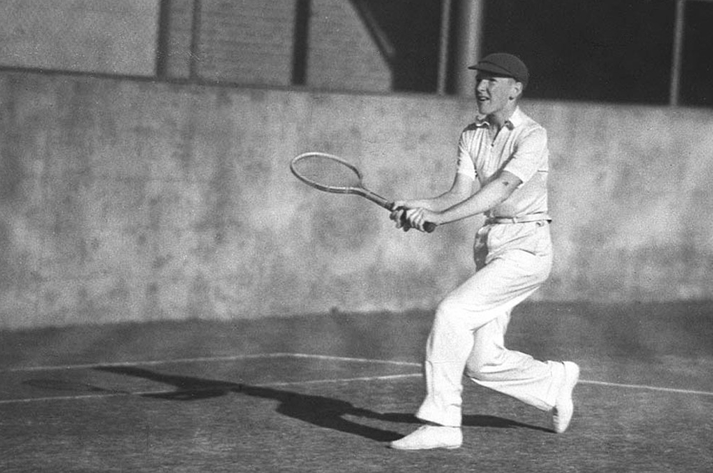 Australian tennis player John Bromwich at the Sydney Tennis Club